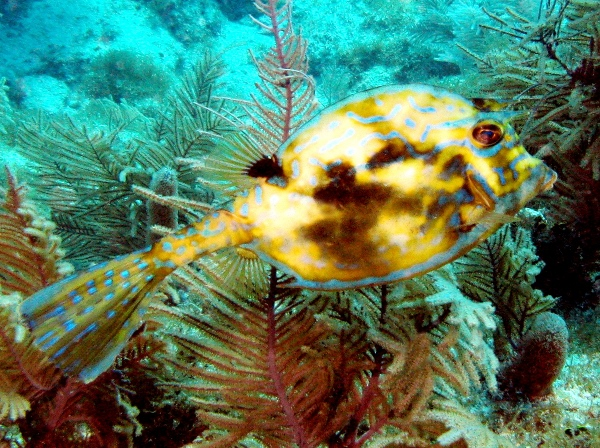 Scrawled Cowfish (Acanthostracion quadricornis)